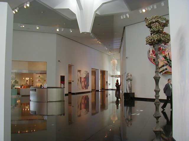 Photograph made by Michael C. Berch (User:MCB) on 2005-08-03.